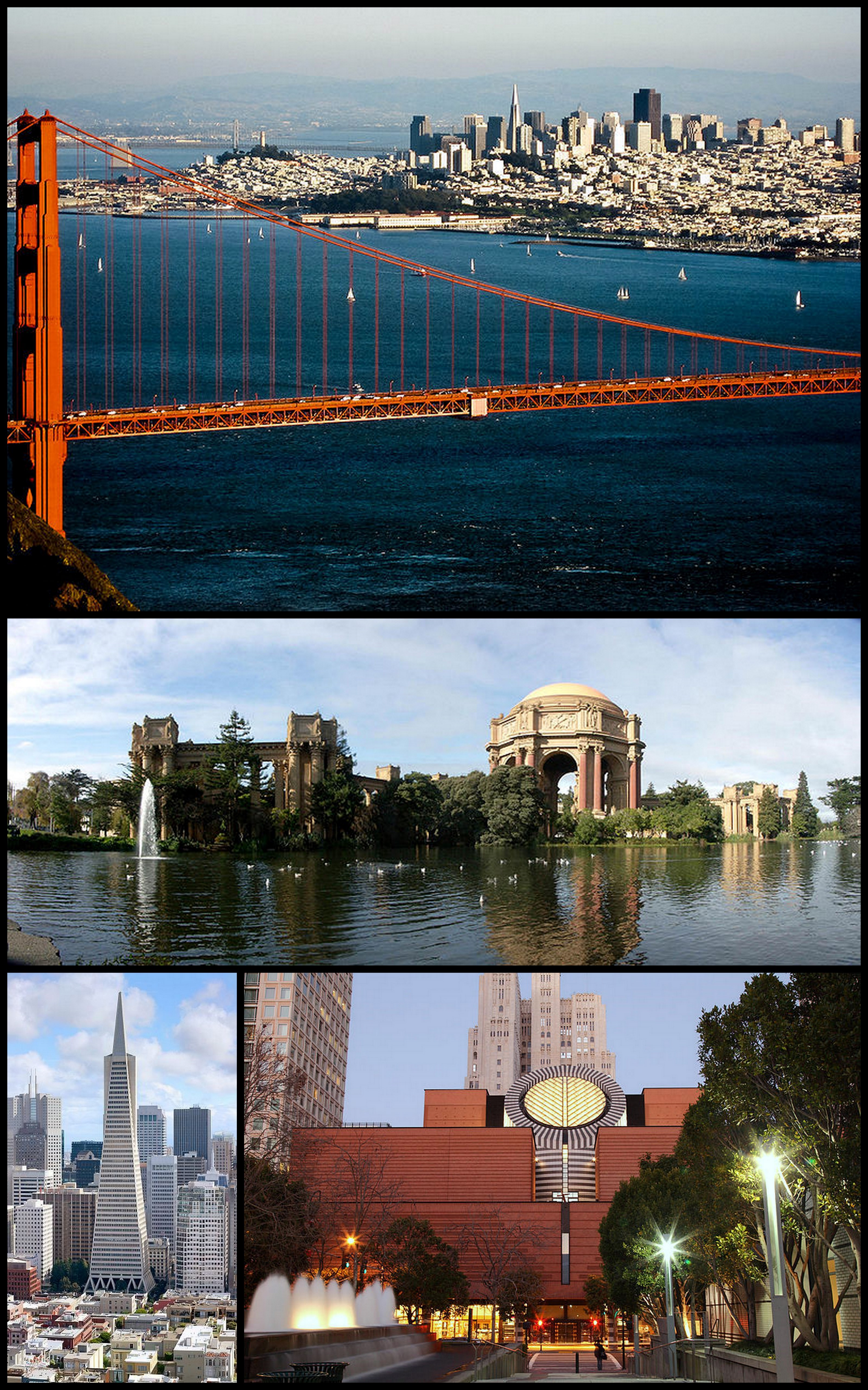 Montage of San Francisco pictures on commons